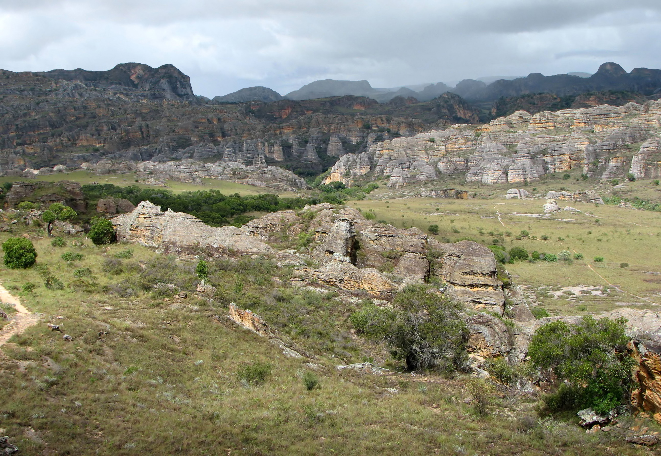 Isalo National Park, Madagascar